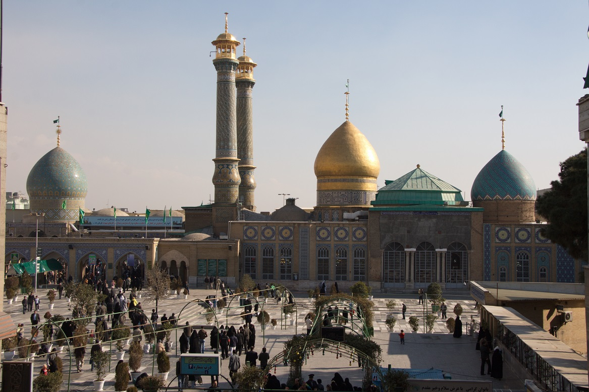 Bagh Toti